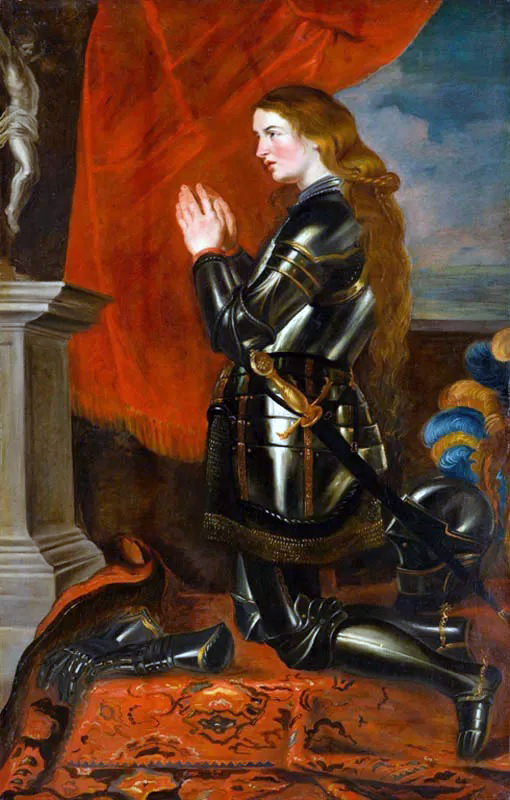 Joan of Arc